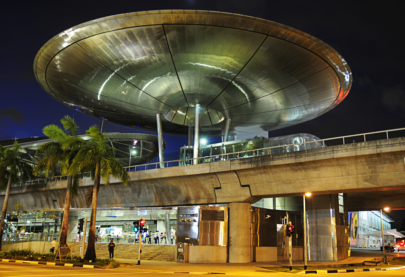 Expo MRT Station, which is located next to the Singapore Expo, has a dome-shaped structure that looks like a giant flying saucer.